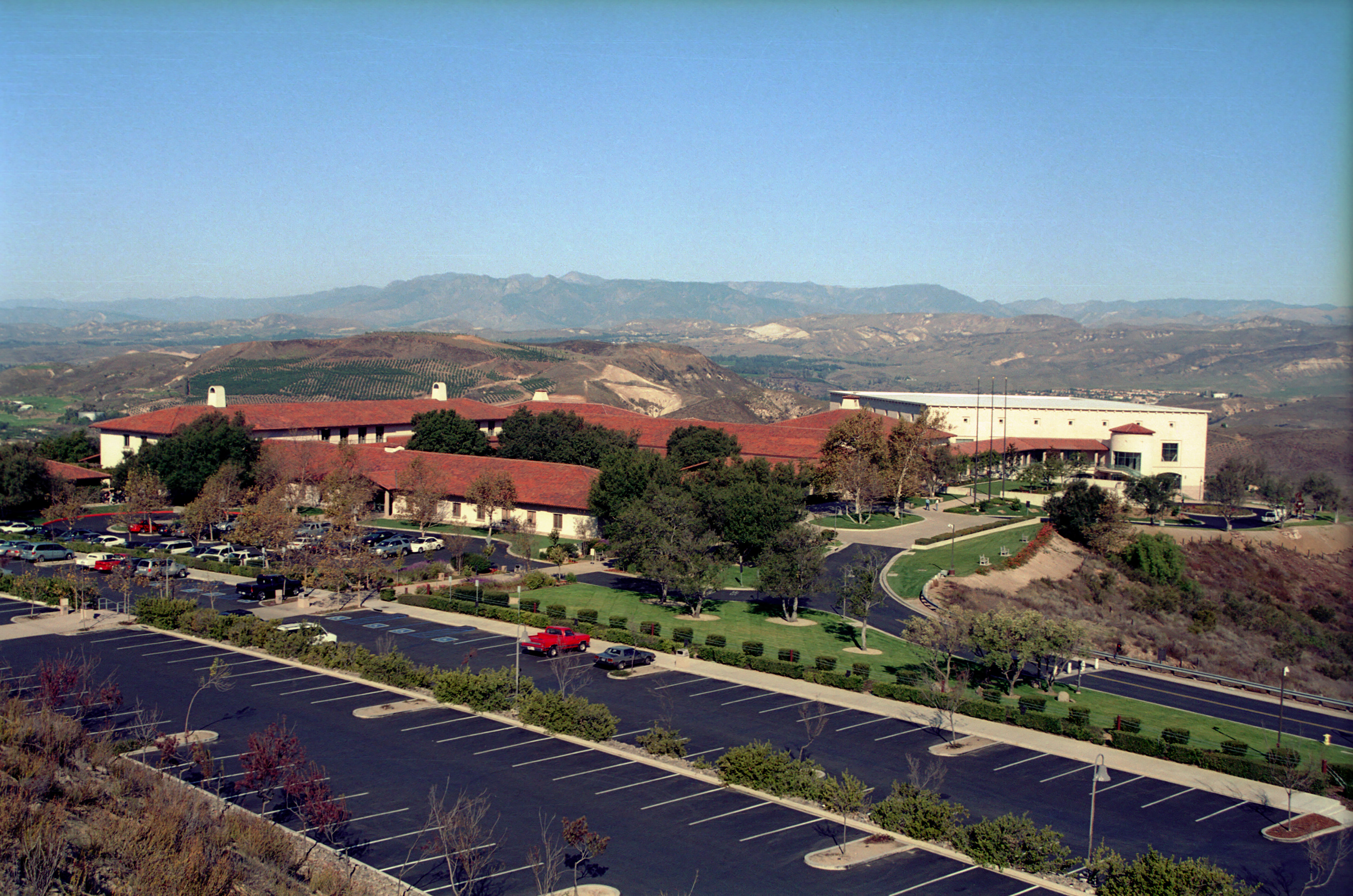 The Ronald Reagan Presidential Library – View of the Reagan Library from the south.